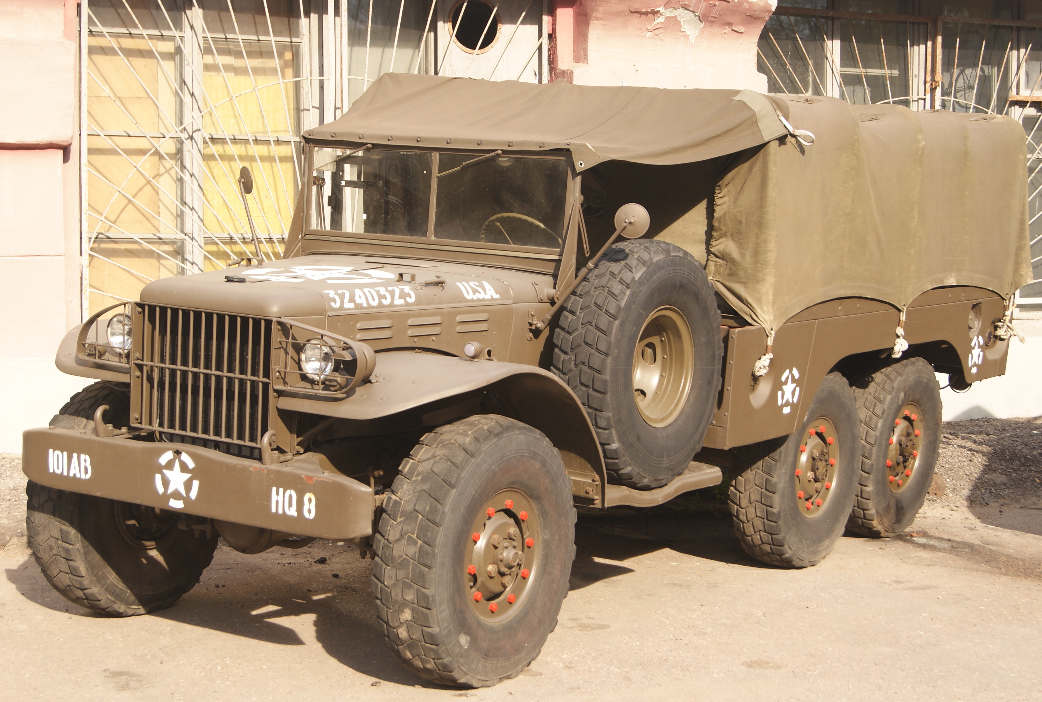 Dodge WC-63 in the Museum of Retro Cars.